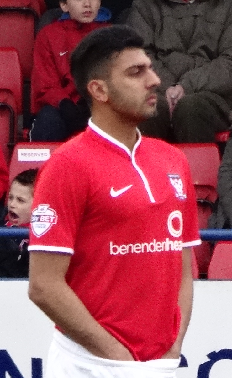 Malvind Benning playing for York City against Exeter City at Bootham Crescent, York on 28 February 2015